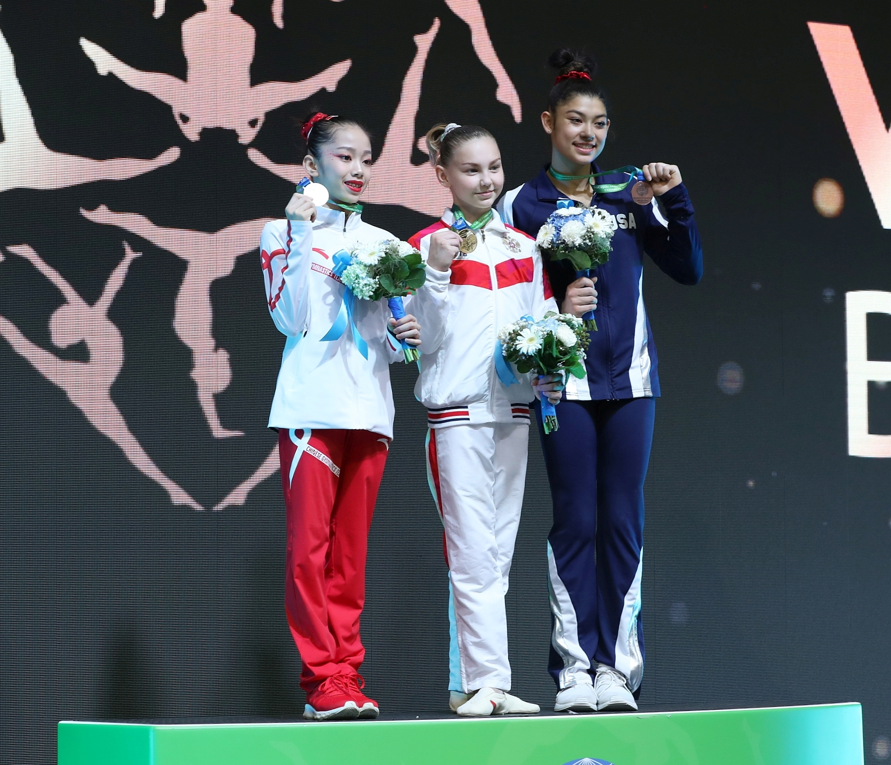 Balance beam victory ceremony during the girls' apparatus finals at the 1st FIG Artistic Gymnastics Junior World Championships on 30 June 2019 in Győr, Hungary. Depicted: Elena Gerasimova. Kayla DiCello. Xiaoyuan Wei.